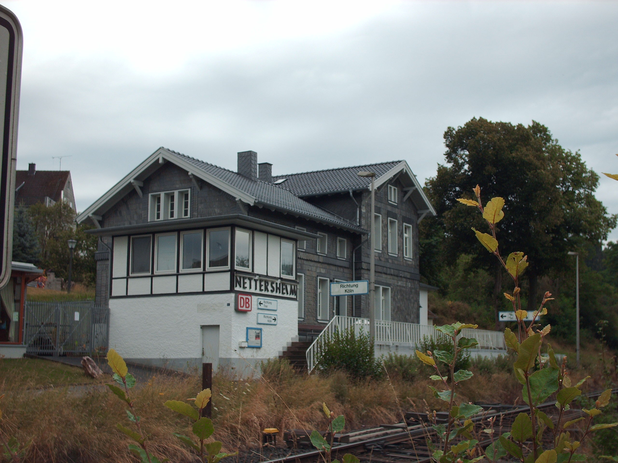 Nettersheim station, Nettersheim, Germany check usage